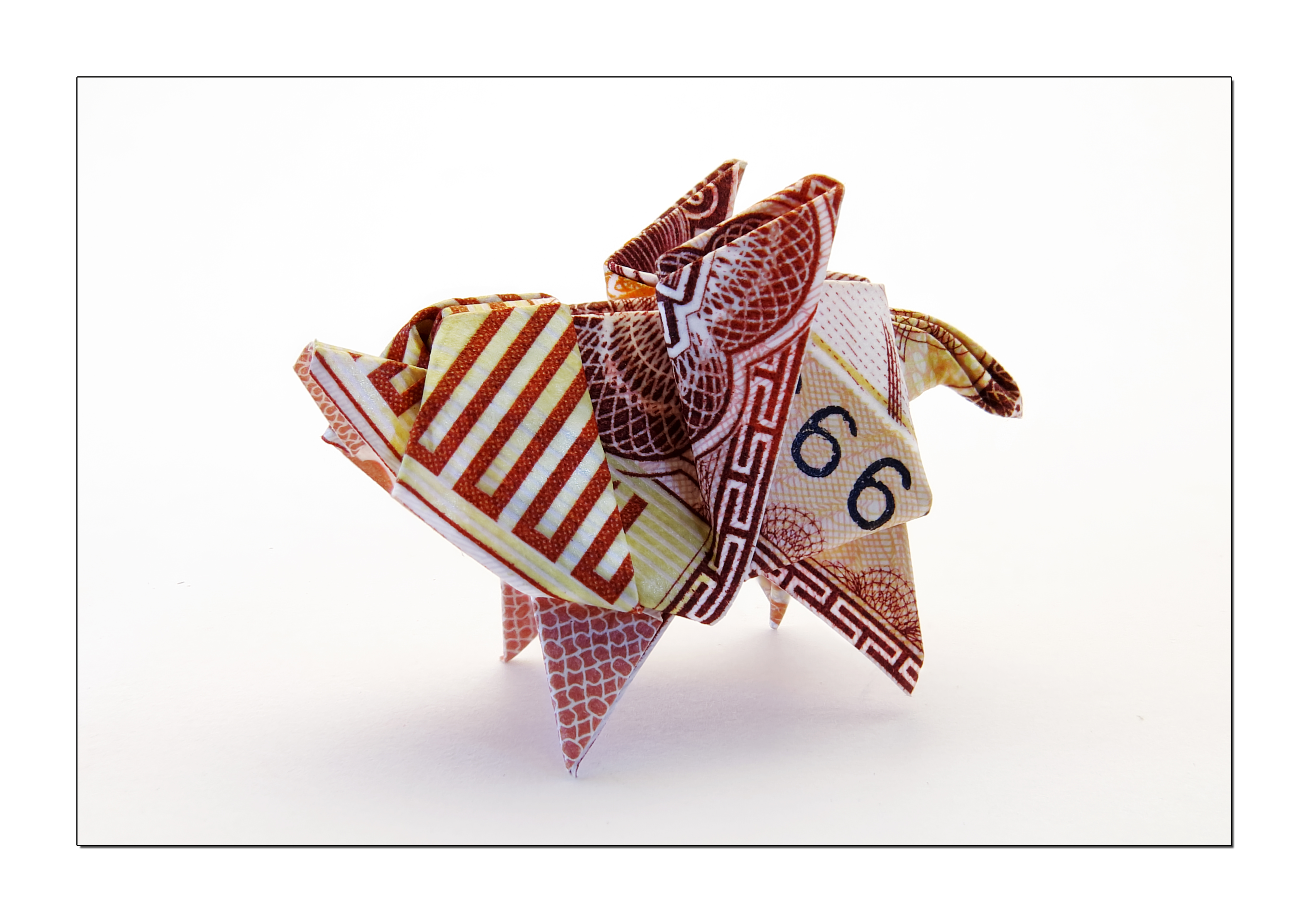 Paper model, invented by Richard Saunders in 2007 at the request of James Randi. Folded and photographed by Richard Saunders.